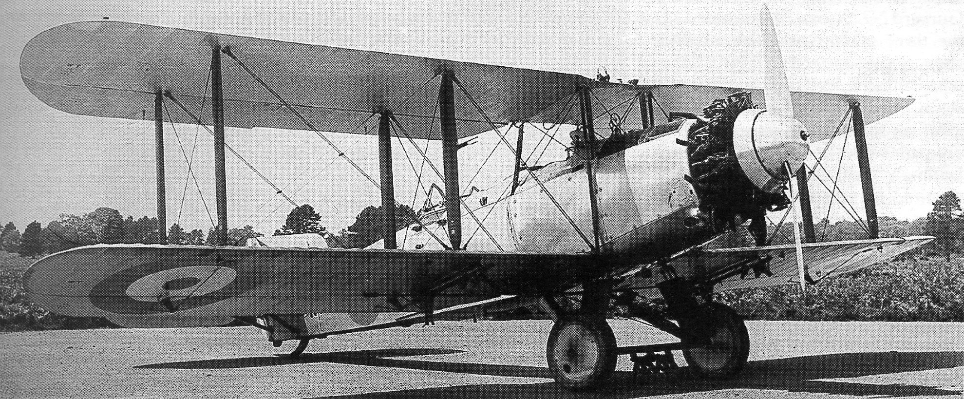 Fairey Ferret I first prototype N190 in July 1925